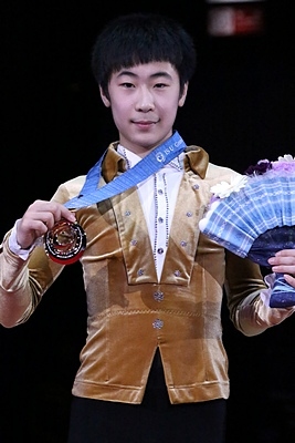 Jin Boyang at the 2013 JGP Final - Awarding ceremony